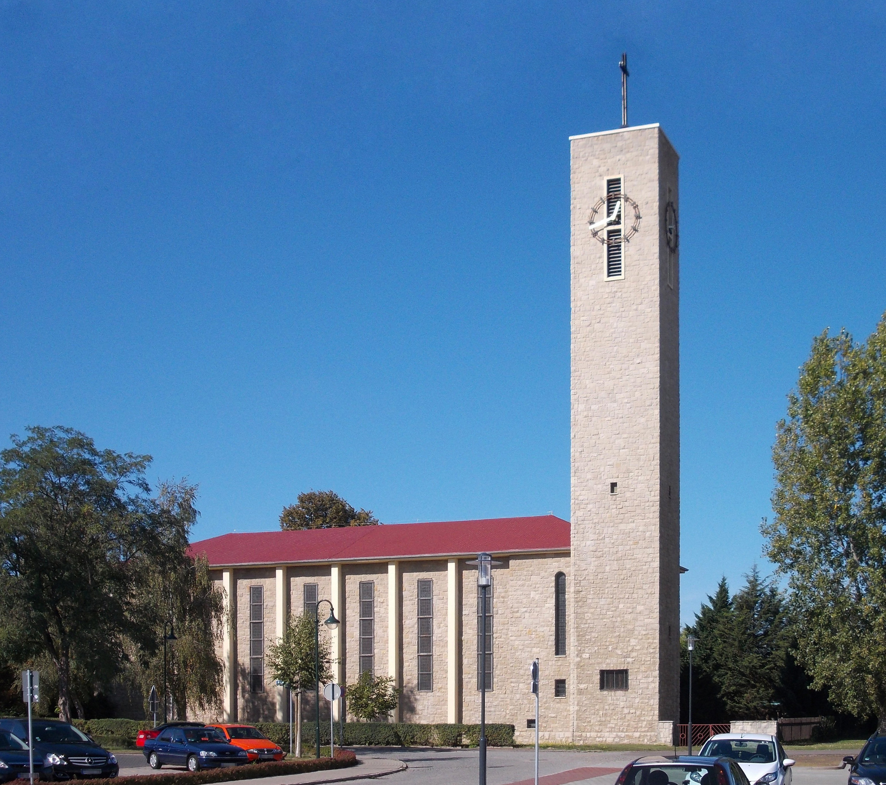 Roman Catholic Christ the King Church in Leuna (district of Saalekreis, Saxony-Anhalt)